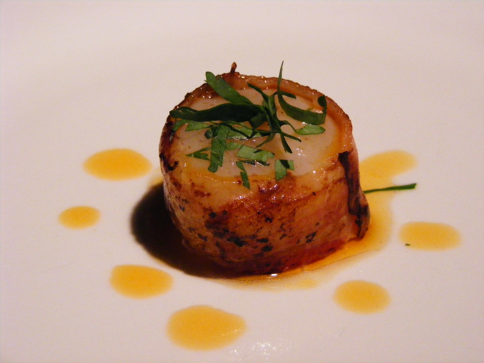 Scallop wrapped with Zeeuws Spek, a Dutch bacon, and pan fried. Infused with chili pepper oil.